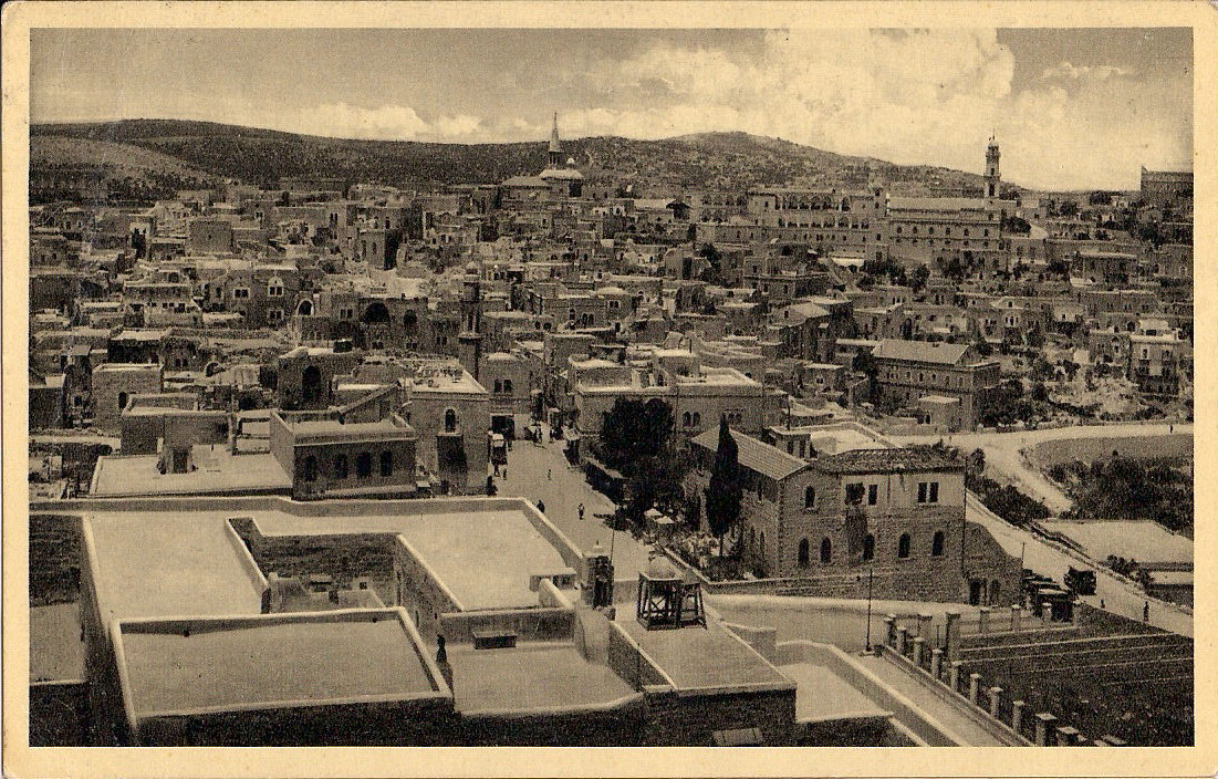 Bethlehem -general view, Geography of Israel